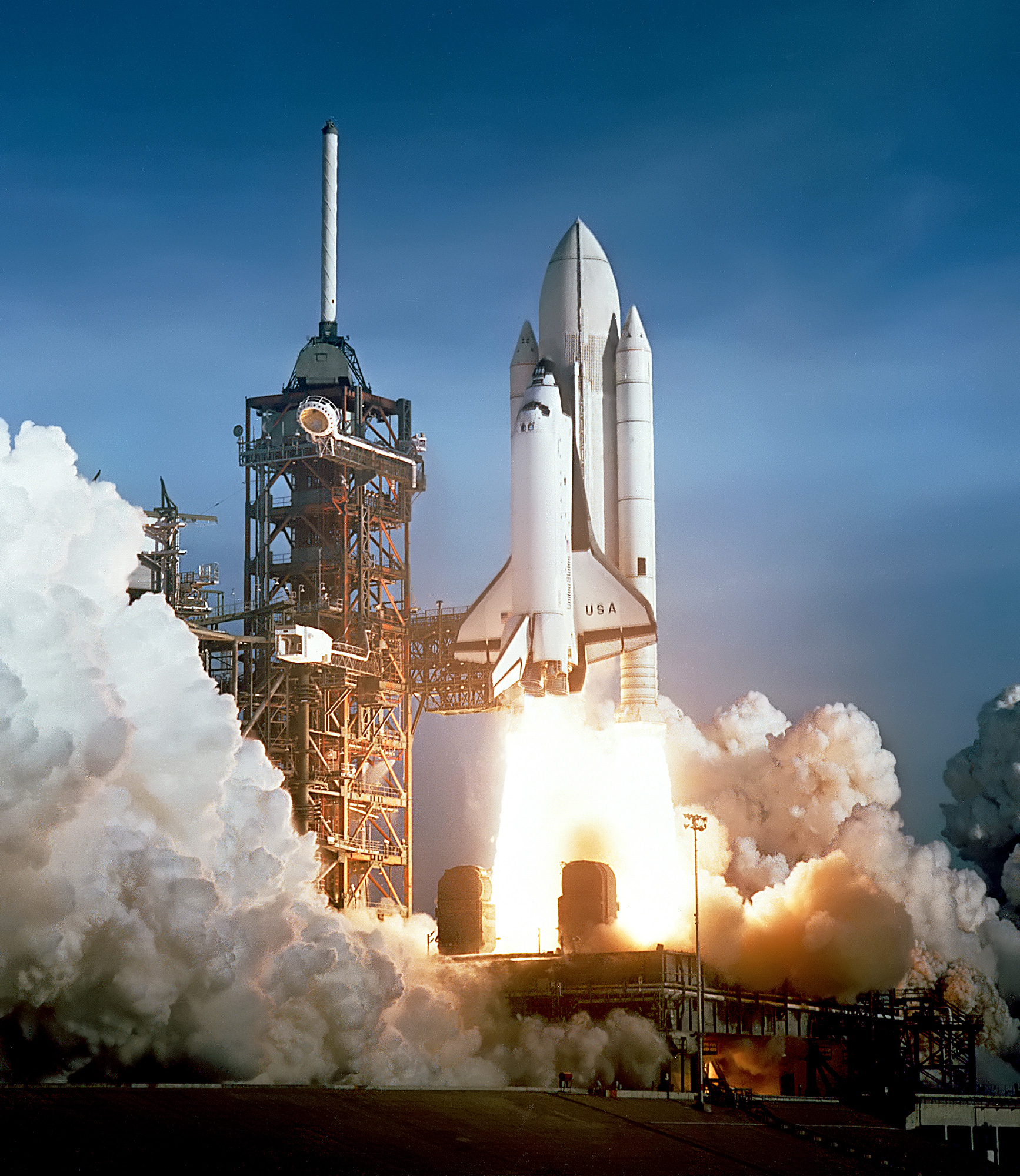 Launch of the Space Shuttle Columbia, STS-1 on April 12, 1981.